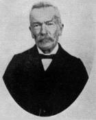 Undated portrait of pioneer California horticulturist Felix Gillet